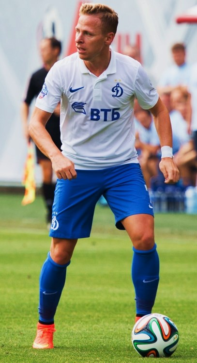 Balázs Dzsudzsák 1